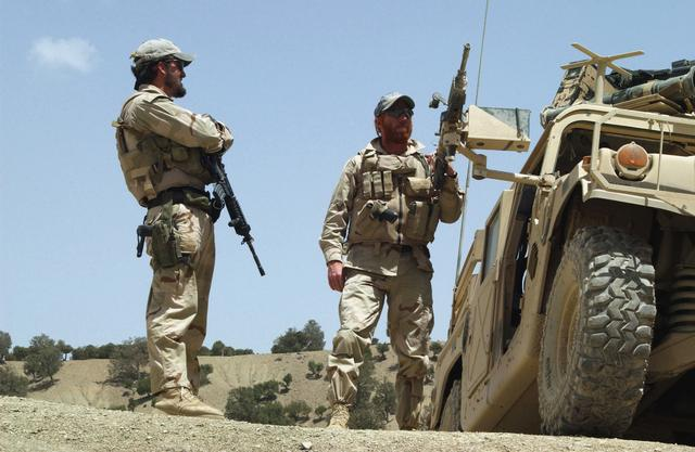 U.S. Army Special Forces soldiers of the 3rd Special Forces Group